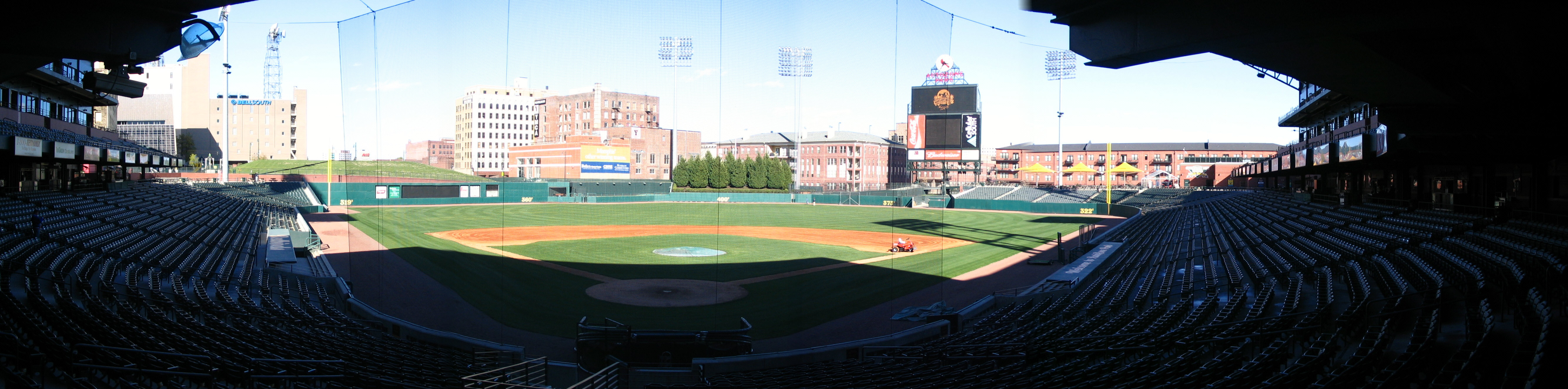 23:28, 7 September 2005 . . EMcCutchan . . 5335×1326 (1,378,269 bytes) (A panoramic view of AutoZone Park's field)